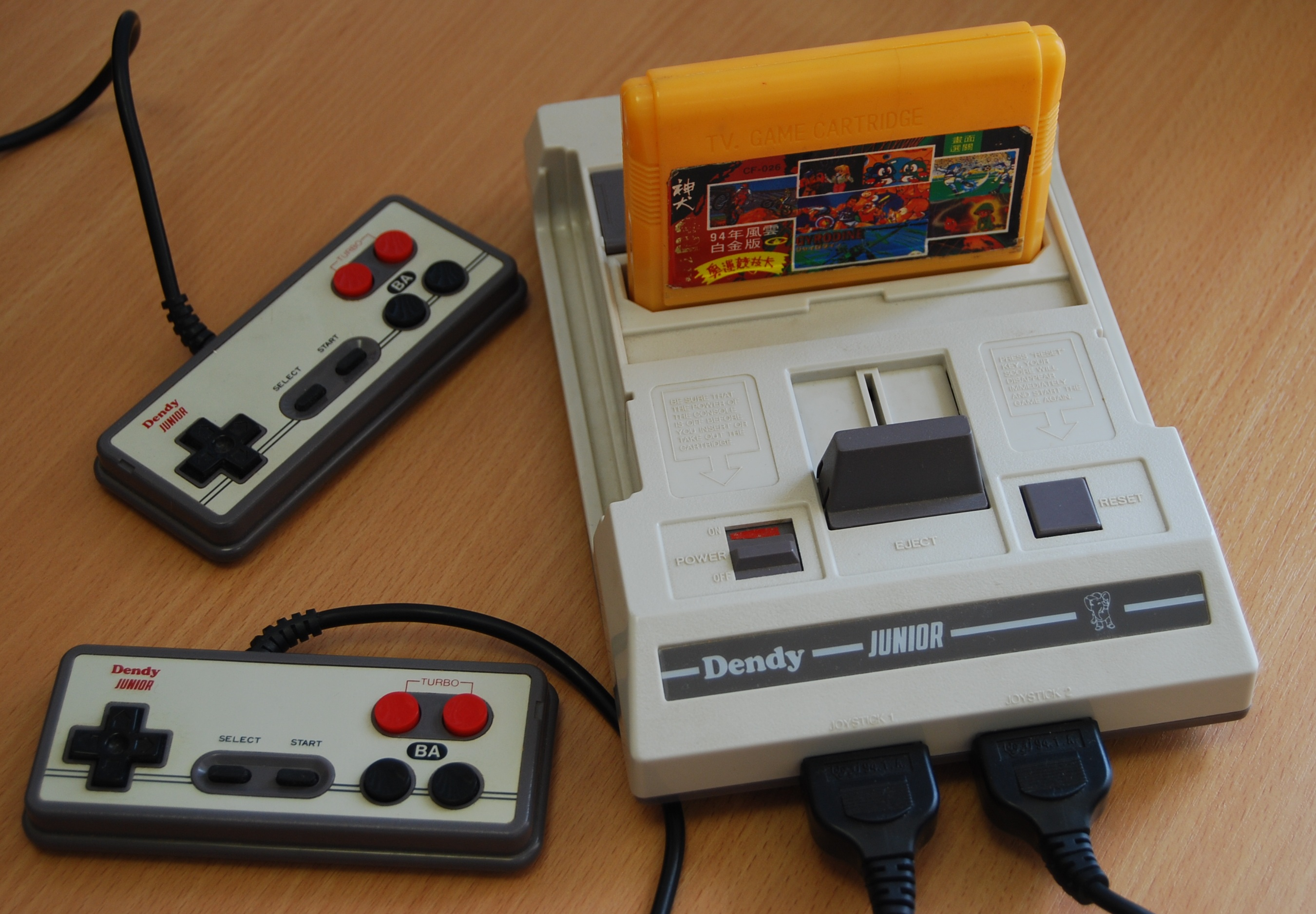 Dendy Junior game console (russian Famicom/NES clone) with game cartridge inserted and both controllers attached.